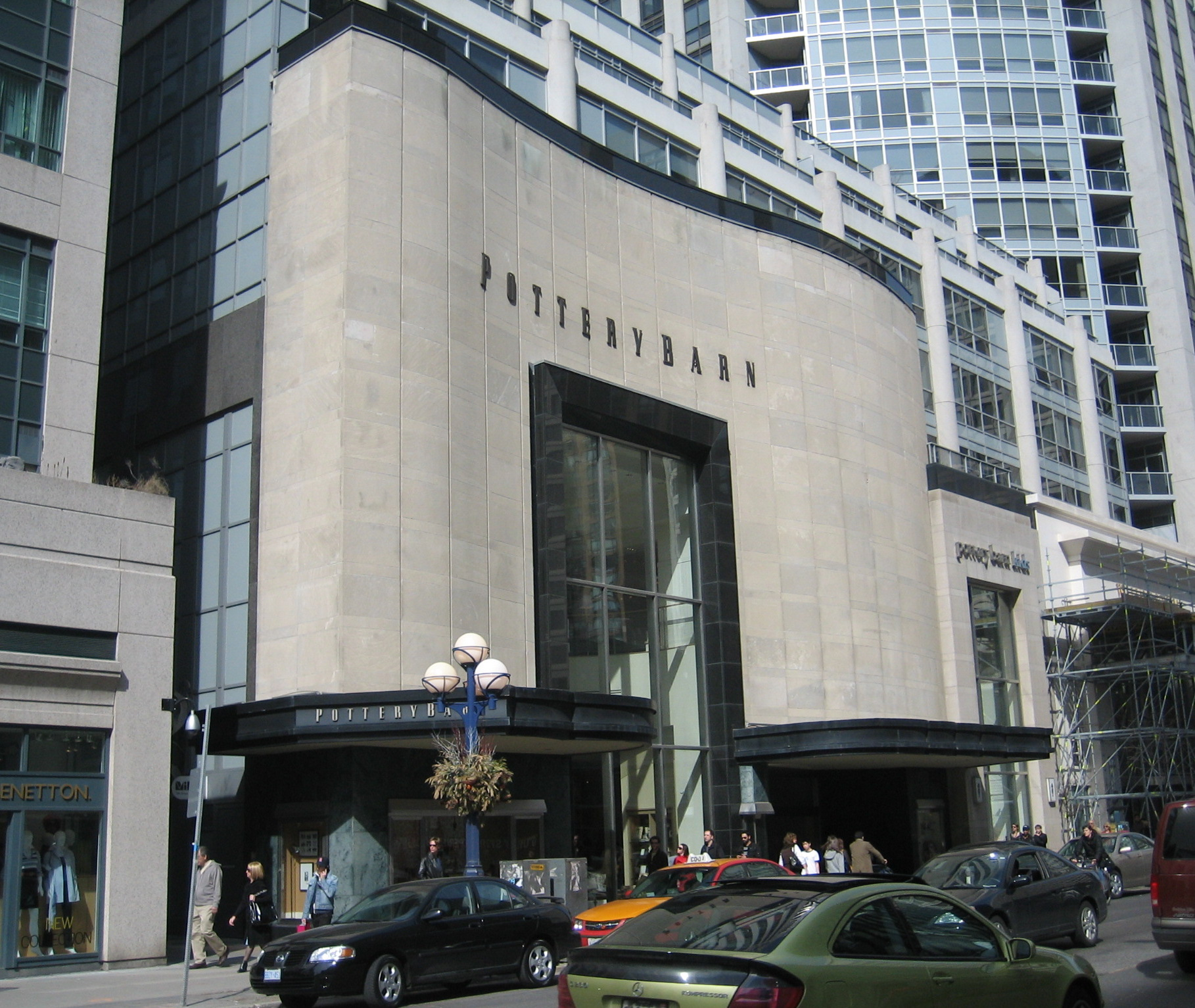 University Theatre (Toronto). The building was demolished, but the façade was saved. Now a Pottery Barn store.